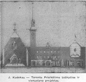 Lithuanian Resurrection of Our Lord Jesus Christ Parish and Church. Designed by Lithuanian architect Stasys Kudokas in 1954-56